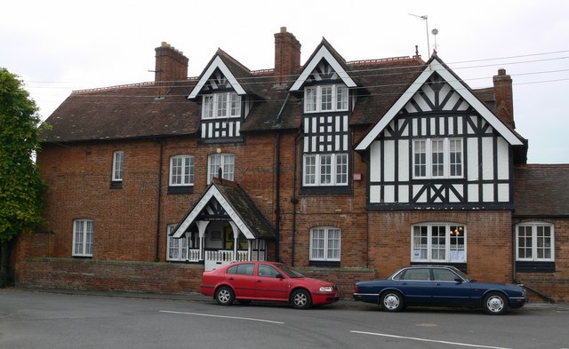 'The House that Jack built' This 18th century house is also known as Gore Lodge and is now a guest house. It is on the corner of School Lane and Main Street in the Leicestershire village of Lubenham.